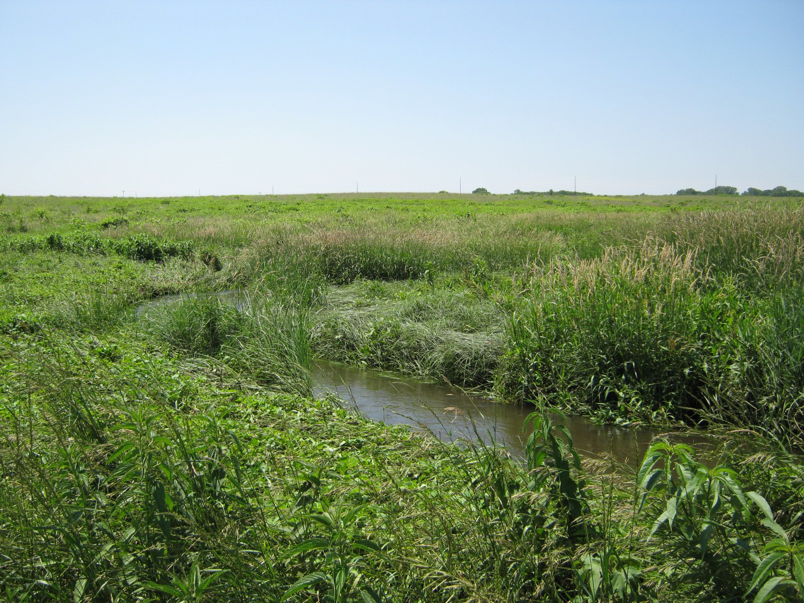 White Stone Creek (at the Spirit Mound Historic Prairie) in Clay County, South Dakota (taken in June of 2011)